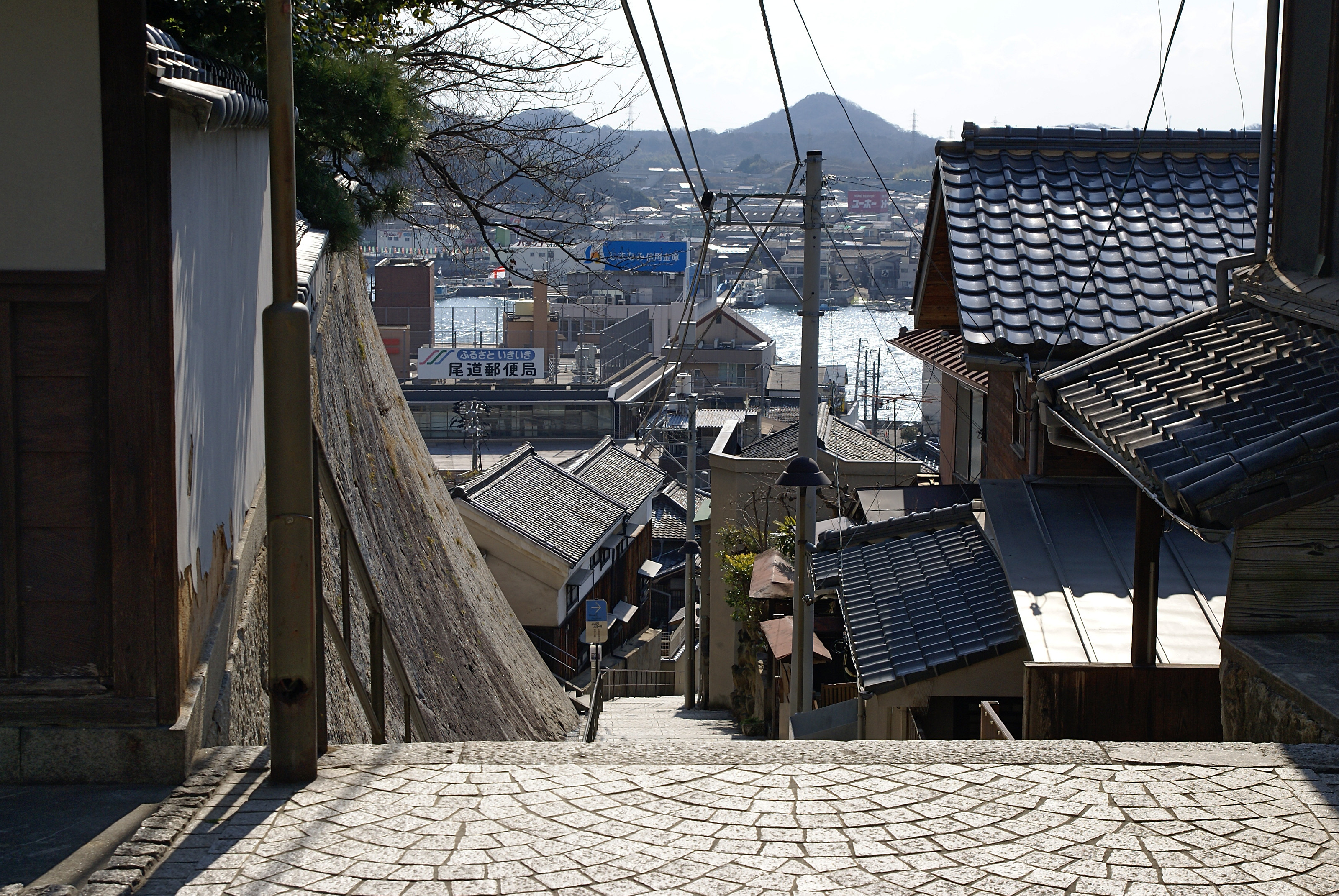 Senkoji-shinmichi in Onomichi, Hiroshima prefecture, Japan